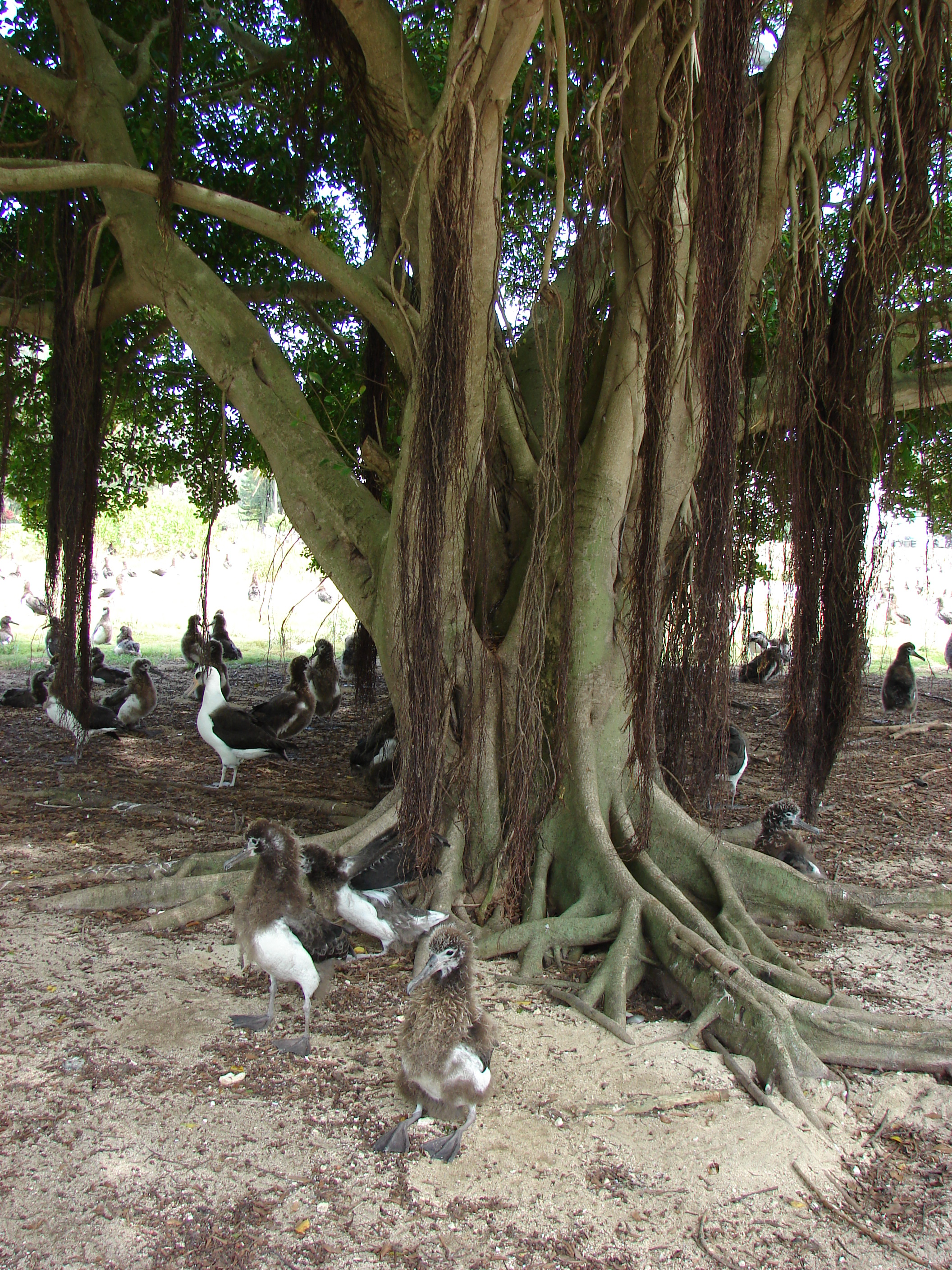 Ficus microcarpa (trunk and Laysan albatross). Location: Midway Atoll, Commodore Ave across from barracks Sand Island